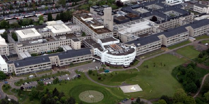 Aerial view of Ninewells Hospital in Dundee, Scotland